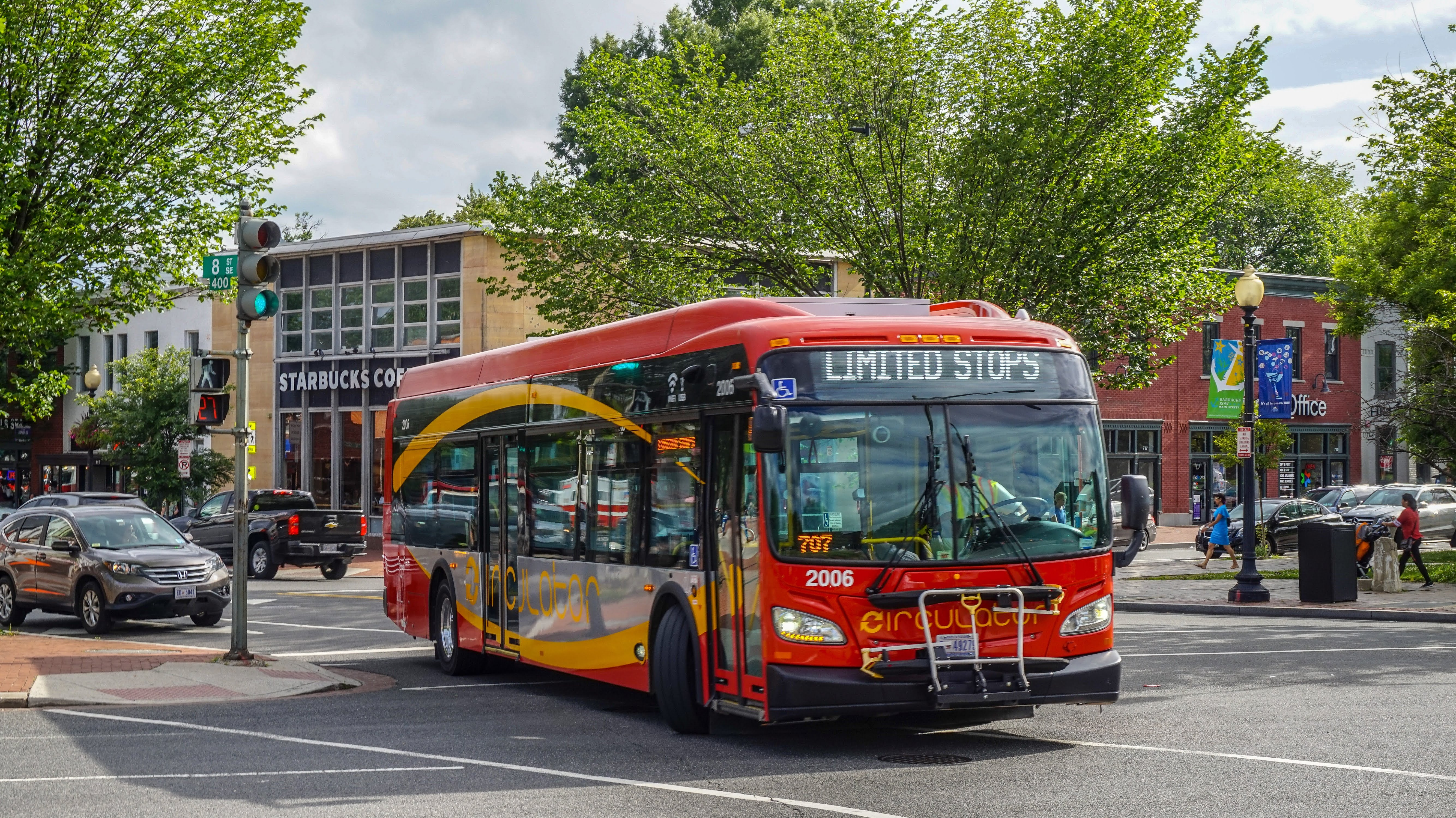 A 2014 DC Circulator NF Xcelsior XDE40 at Eastern Market Station